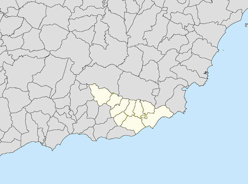 Barrios in the municipality. Map scale is 1:200,000